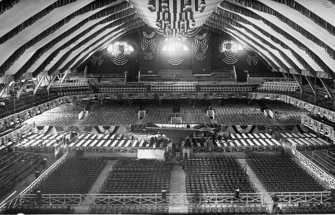 Photo of the interior of the Chicago Coliseum as it hosted the 1916 Republican National Convention.